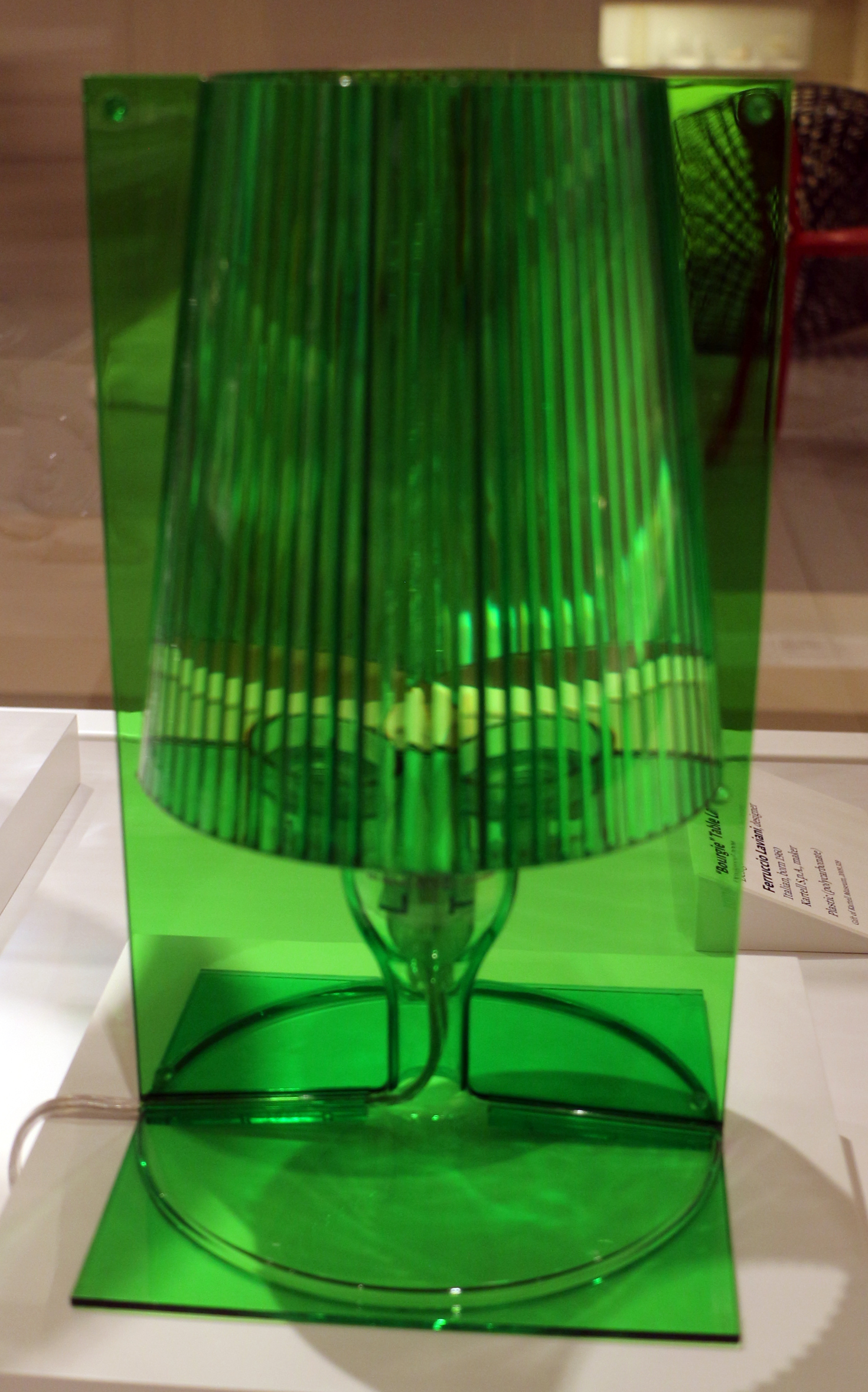 Collections of the Indianapolis Museum of Art